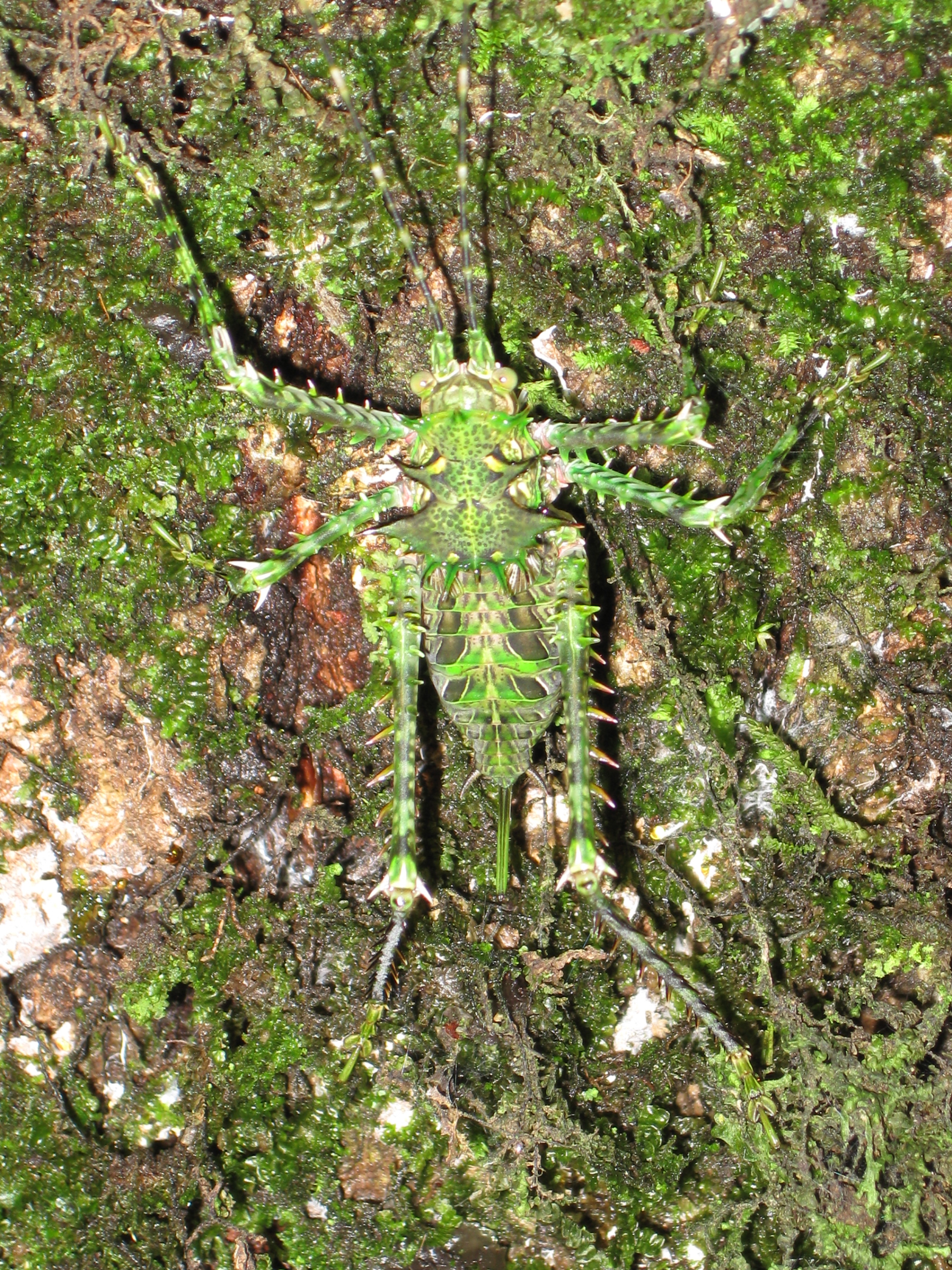 Spiny Rainforest Katydid, Phricta aberrans, female - late instar, Nightcap Ranges.